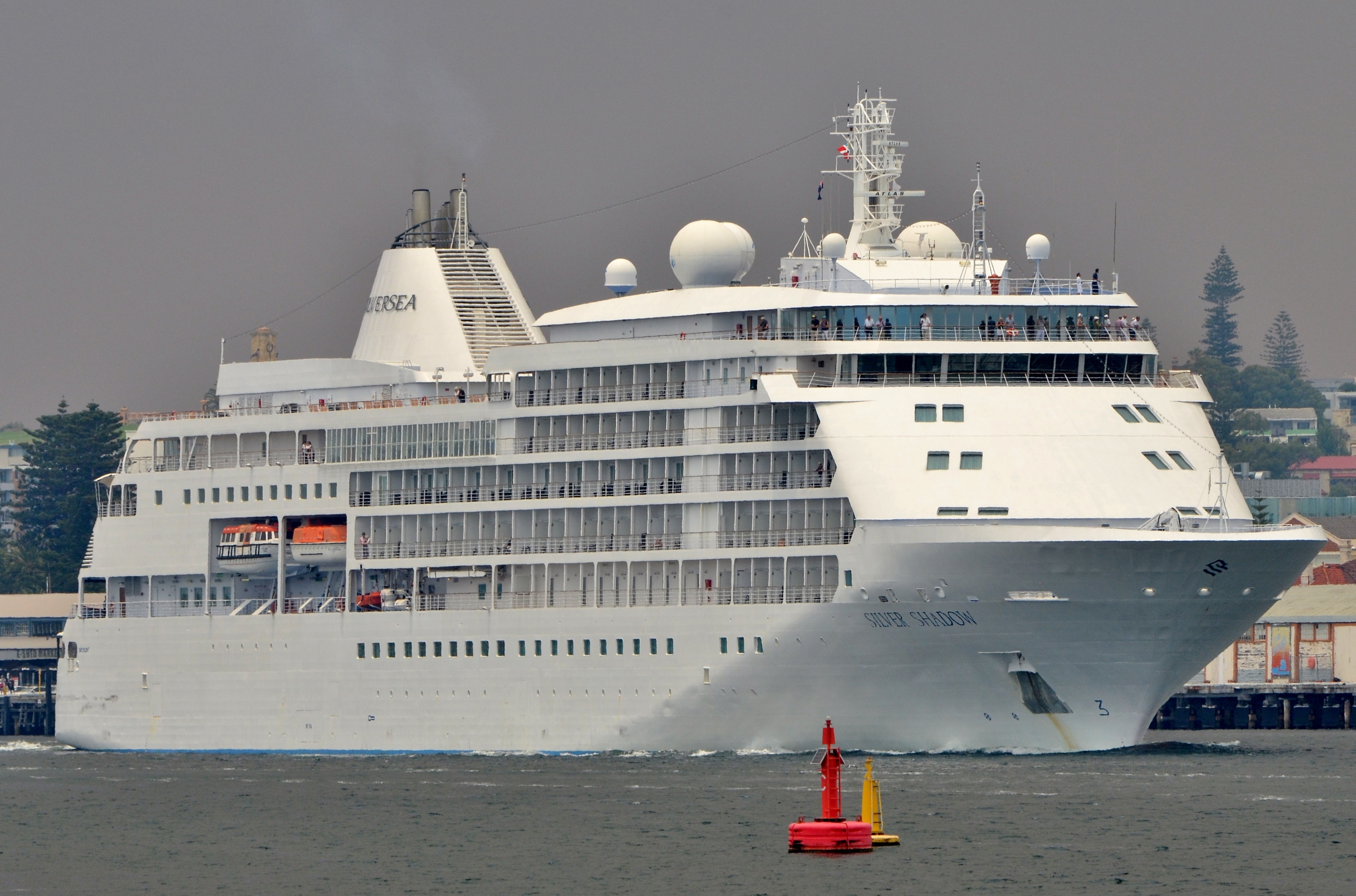 Cruise ship Silver Shadow departing from Fremantle Harbour, Western Australia, on Voyage 3801, an 18-night Sydney to Singapore cruise. The unusual colour of the sky is due to smoke from a bush fire in the Darling Scarp, on the eastern outskirts of Perth.